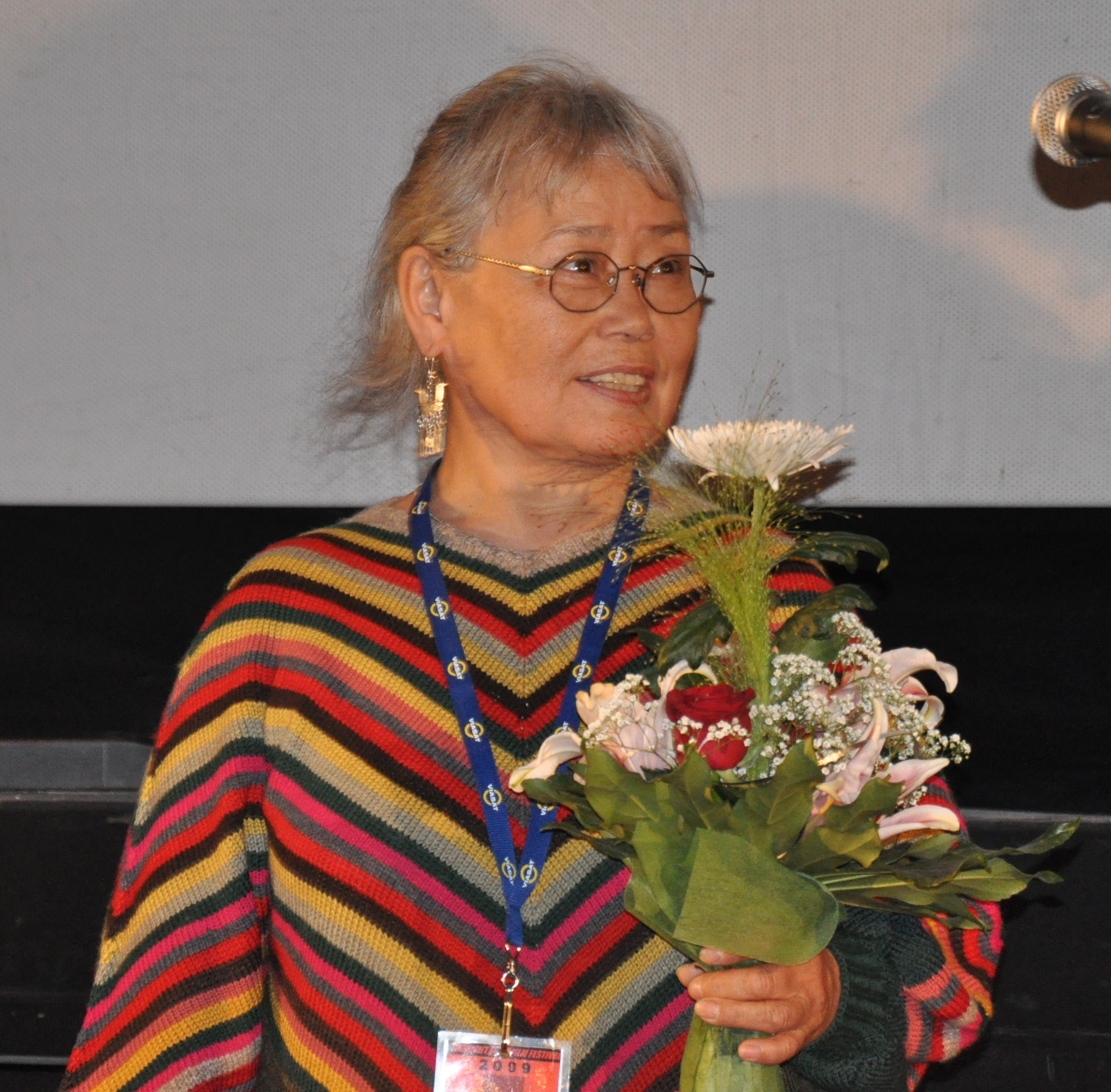 Finnish documentarist Anastasia Lapsui at the Midnight Sun Film Festival 2009 in Sodankylä, Finland.